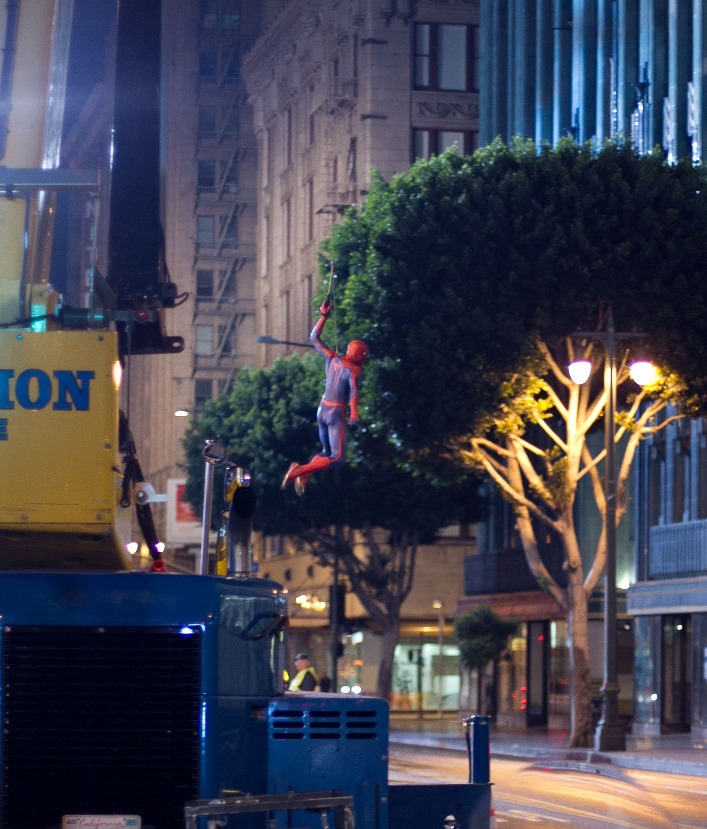 Spider-Man's stunt double shoots in a Carl's Jr. Commercial promoting "The Amazing Spider-Man".